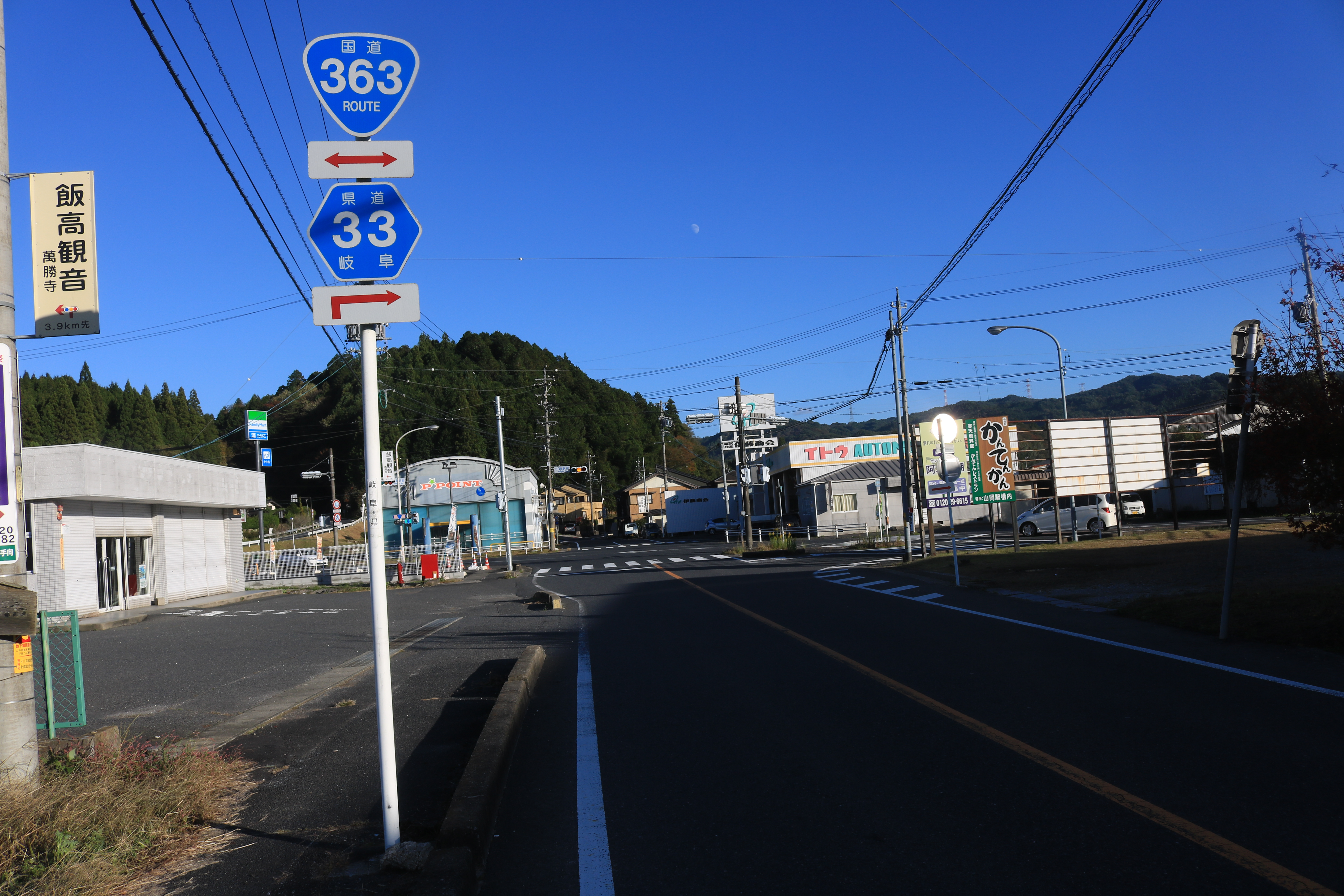 Route 363 and Gifu Prefectural Road Route 33 in Kamitoge, Yamaokacho, Ena, Gifu Prefecture, Japan.